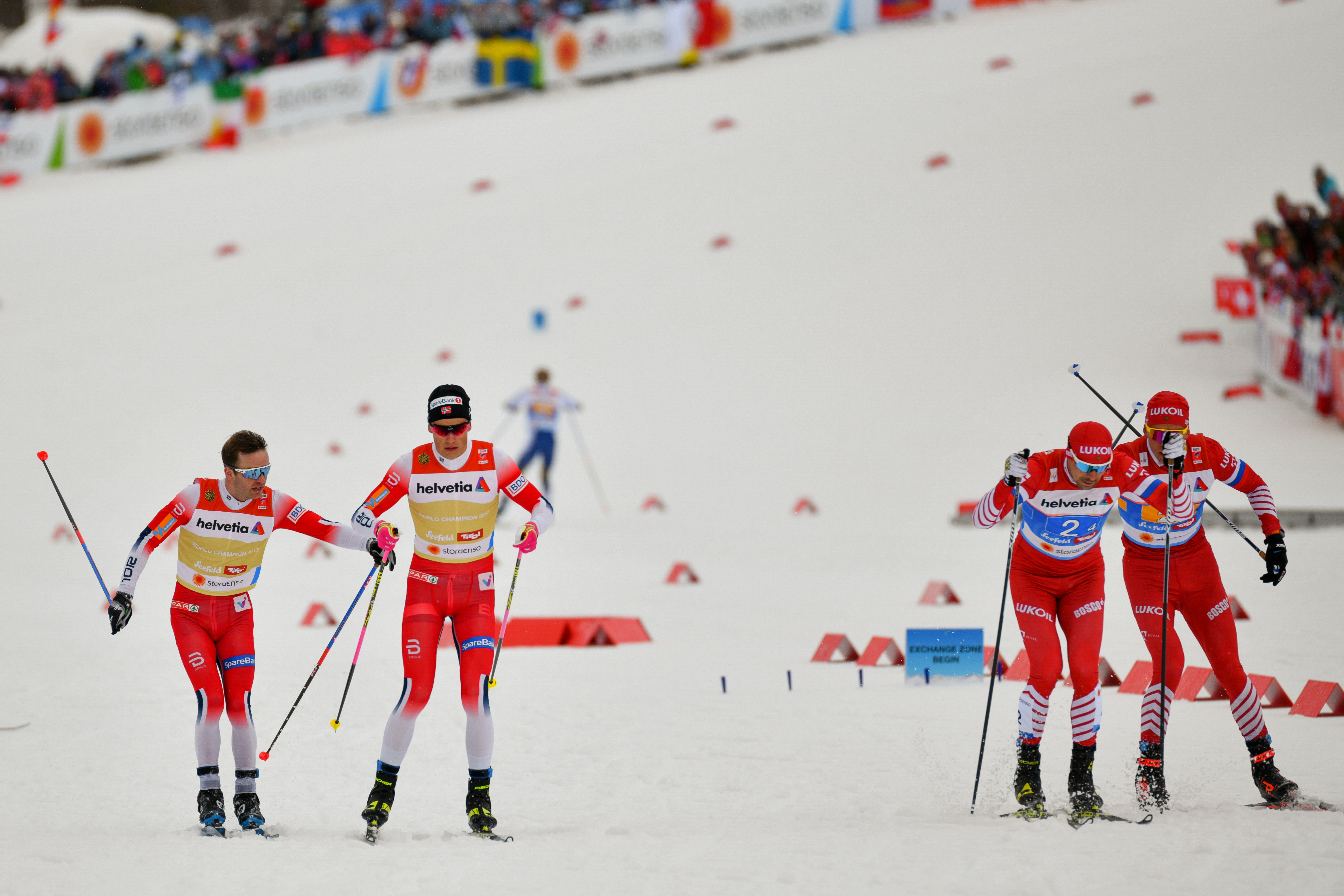 FIS Nordic Wolrd Ski Championships Seefeld 2019 - Men 4x10km Relay Classic/Free. Picture shows Final Exchange mit Sjur Roethe (NOR), Johannes Hoesflot Klaebo (NOR), Sergey Ustiugov (RUS) and Alexander Bolshunov (RUS).